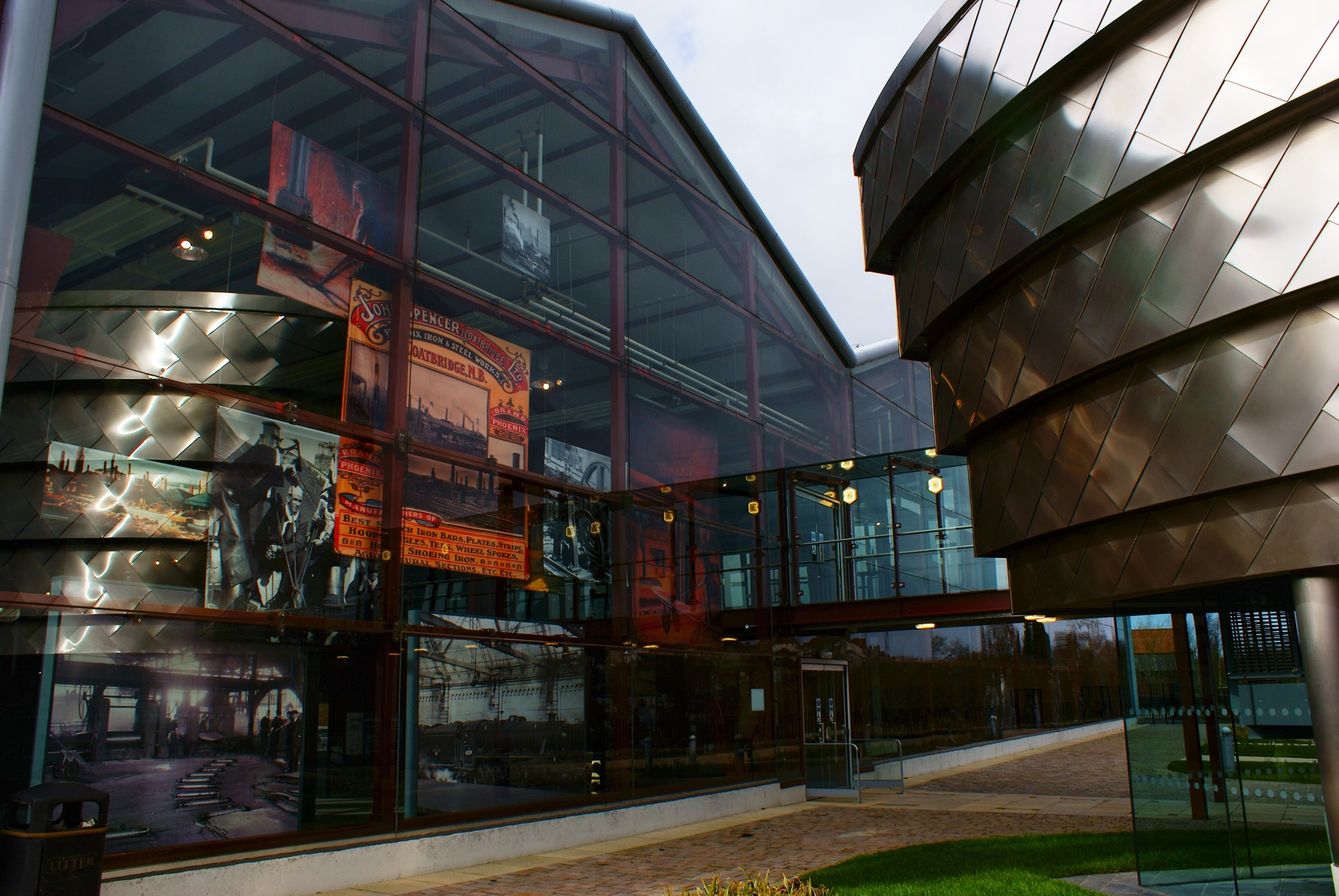 Summerlee Heritage Park 2009. Coatbridge